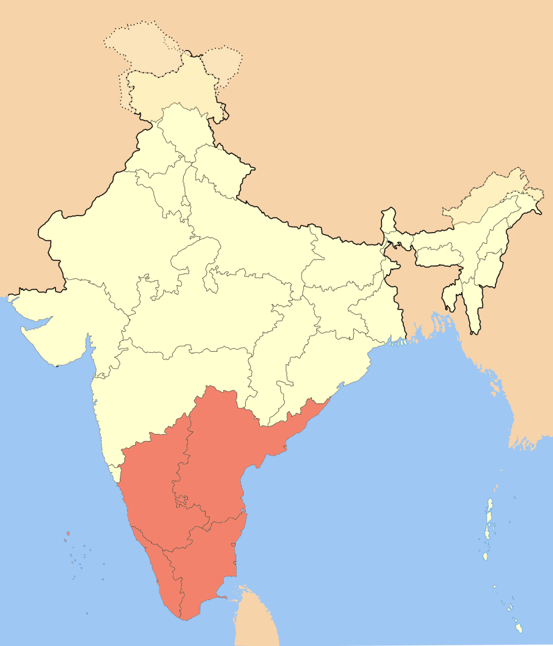 Locator map of the South India